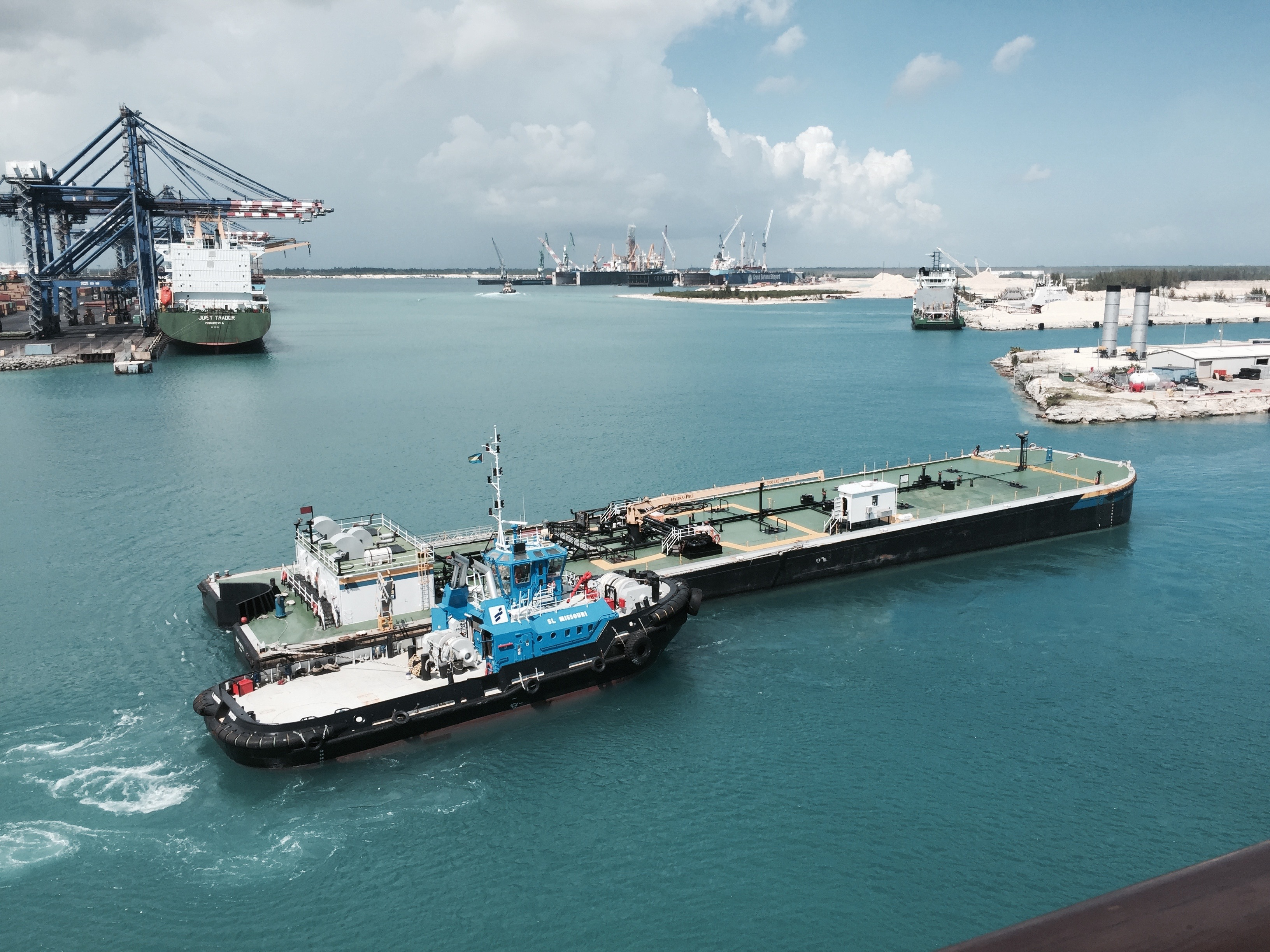 Tug and barge in Freeport Harbor, the Bahamas, with container terminal in background. Viewed from the deck of the Carnival Fantasy.